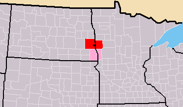 Taken from this Wikipedia map: [1] and the information is from the US Census here: [2]